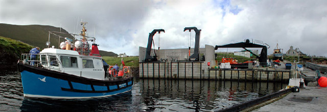 Foula ferry. The New Advance ferry leaves Foula for the Shetland mainland